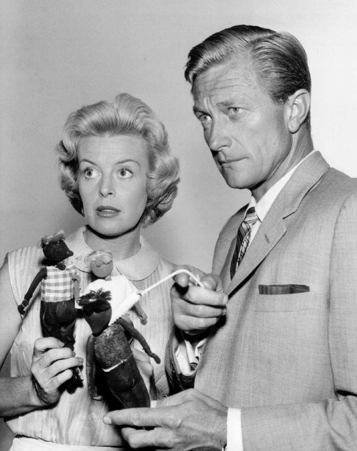 Photo of Patricia Donahue and Richard Denning from the television program Michael Shayne. Donahue played Lucy Hamilton, Shayne's secretary, while Denning played Shayne.